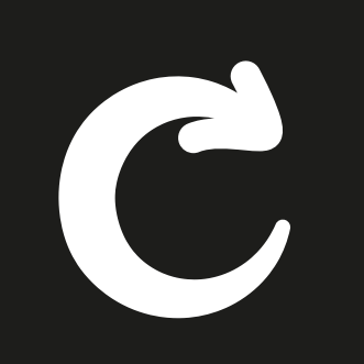 Logo used by Podemos to promote the 2017 motion of no confidence in the government of Mariano Rajoy.